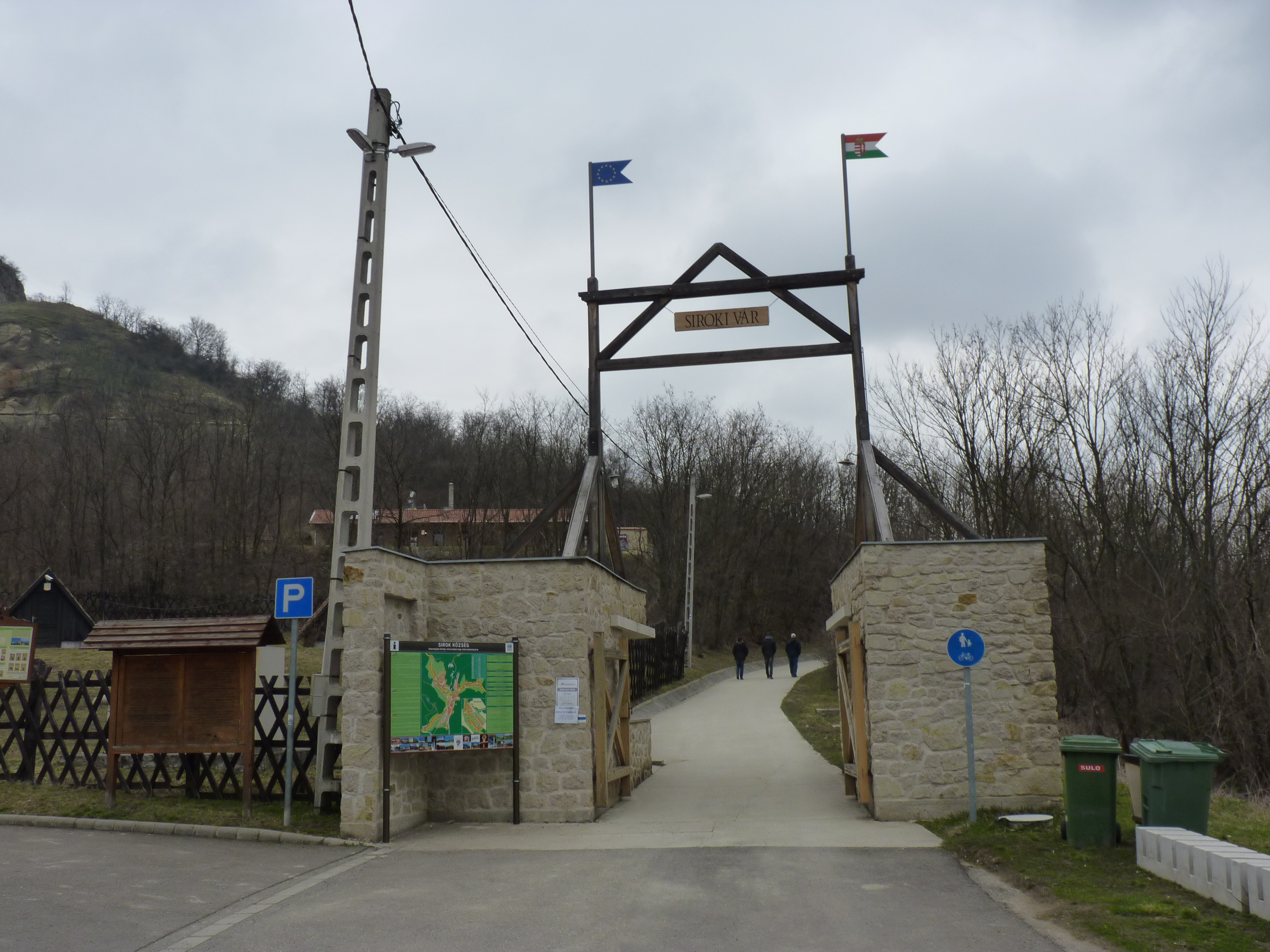 Gate of the way to Castle of Sirok